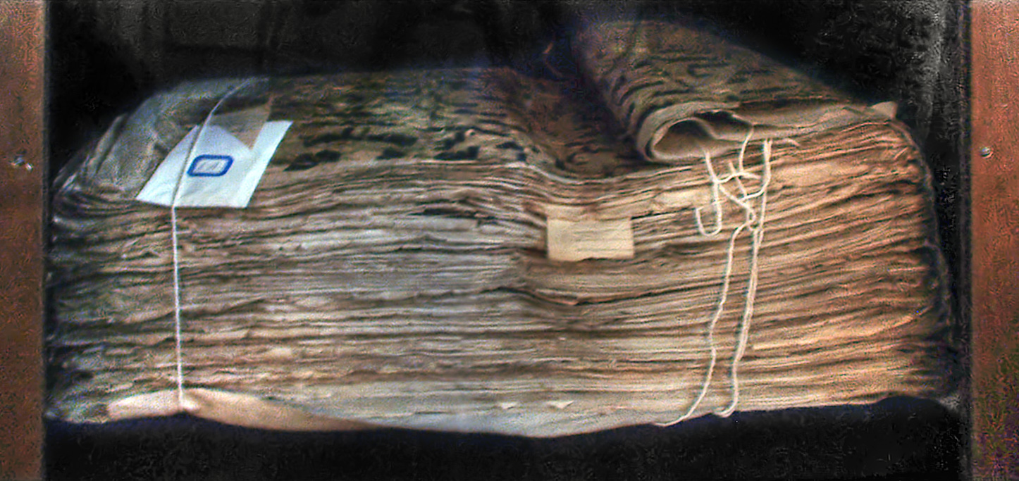 A qur'an from the 9th century. It is an alleged 7th century original of the edition of the third caliph Uthman (see Uthman Qur'an) but this is disputed since it is written in kufic. The qur'an is located in the small Telyashayakh mosque in Tashkent.